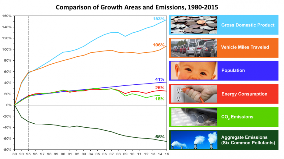 Graph, "Comparison of Growth Areas and Emissions_1980-2015.", showing decreases in US air pollution emissions from transportation sources (e.g. cars, trucks, aircraft, construction and farm equipment) while US population and economic activity increased.